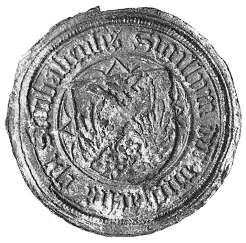 Seal of Michael de Rentelen, titular bishop of Symbalon, and auxiliary bishop in Schwerin ,1472